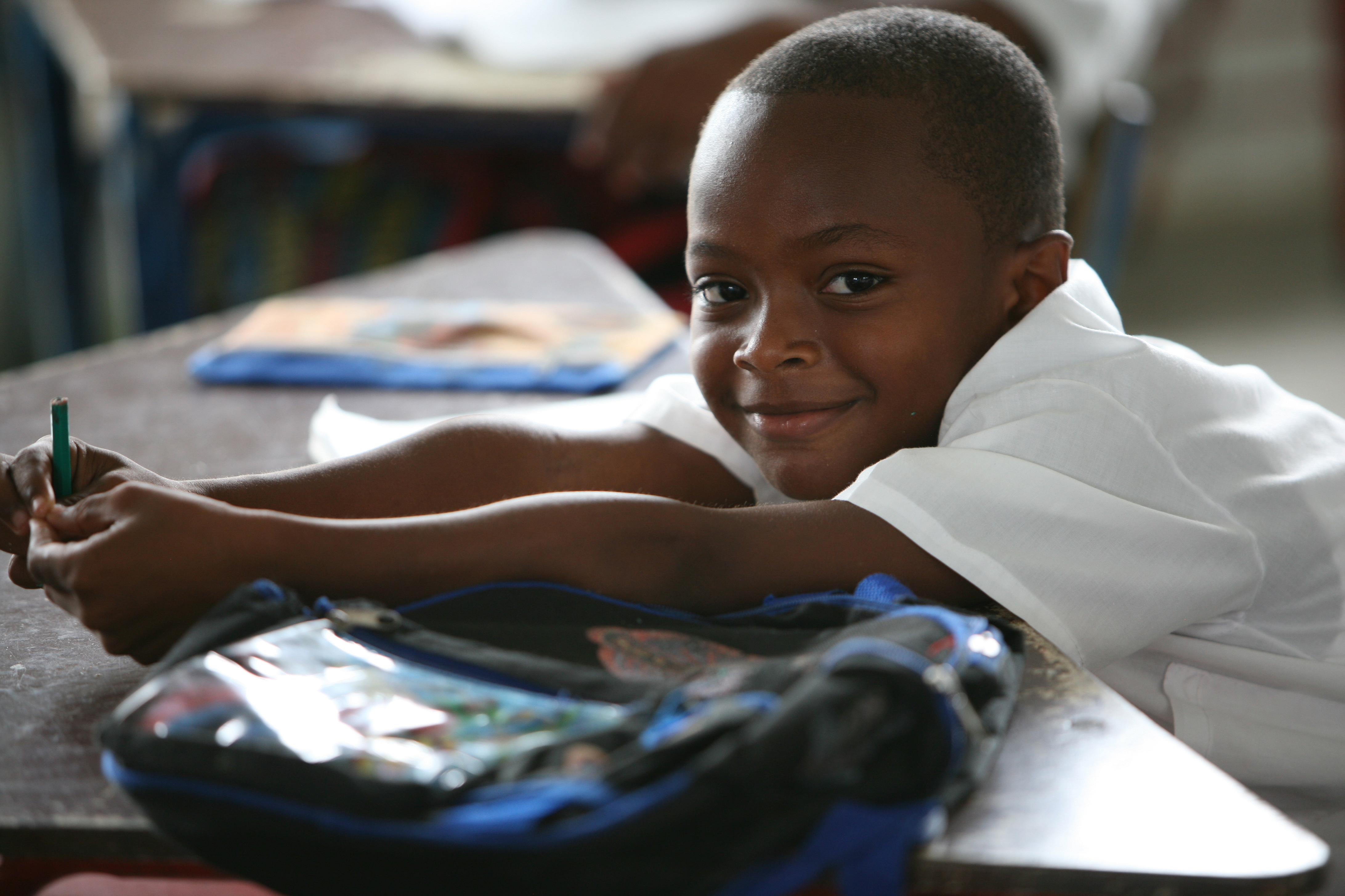 2011 Education for All Global Monitoring Report - A schoolboy in Florida (Valle), in ColombiaRomână: Raportul de monitorizare „Educație pentru toți”, 2011: Un elev din Florida (Valle), Columbia